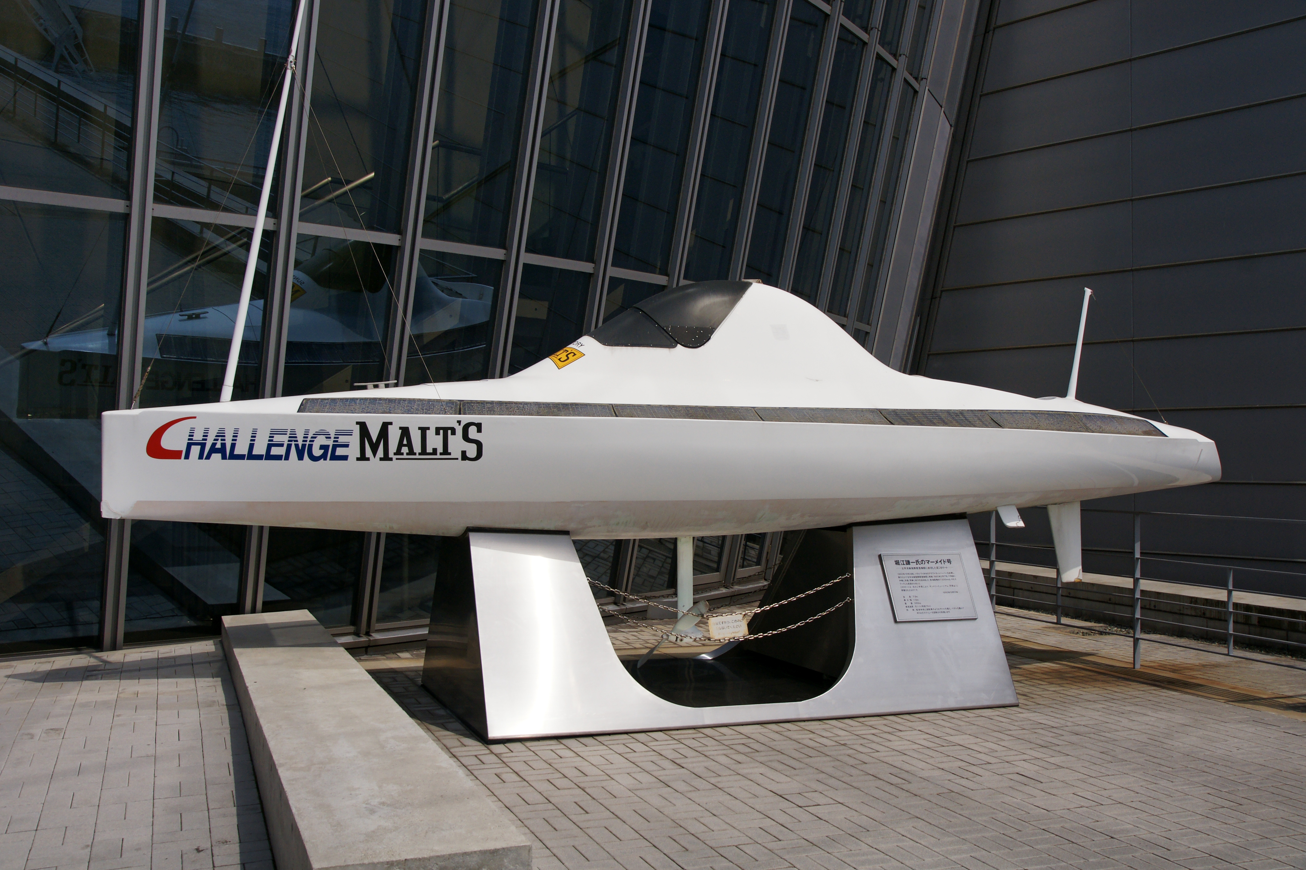 The Mermaid of Horie Kenichi at Suntory Museum in Osaka, Osaka prefecture, Japan